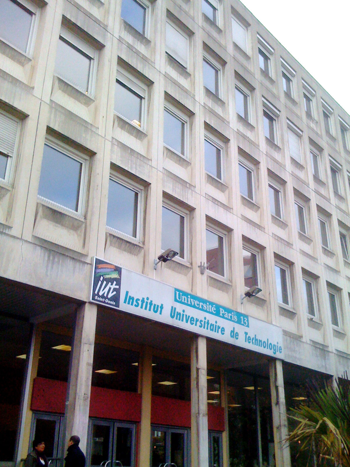 IUT building in Saint-Denis (France) Façade de l'IUT de Saint-Denis (Université de Paris XIII)